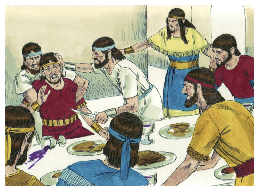 Biblical illustration of Second Book of Samuel Chapter 13